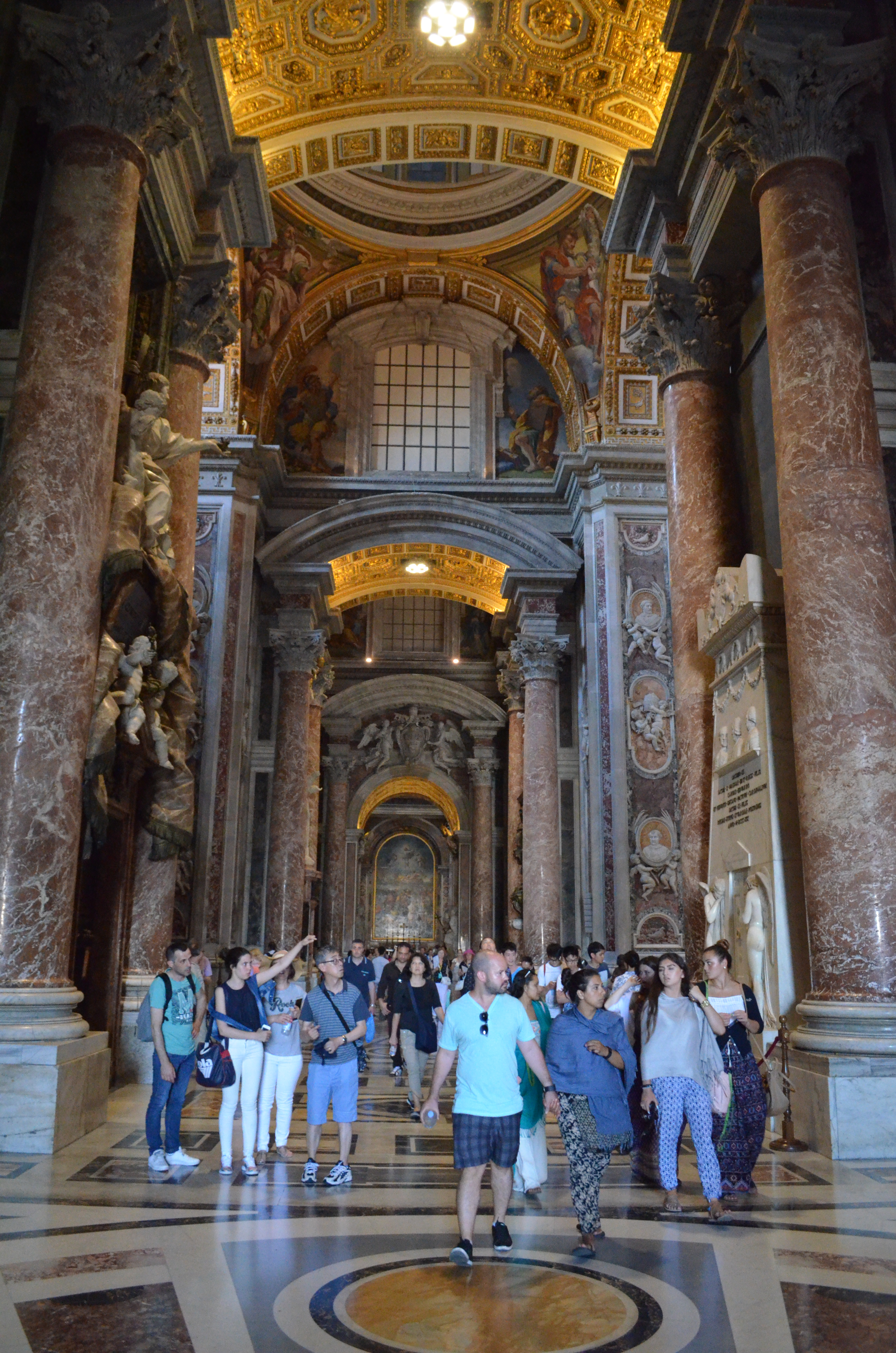 Saint Peter's Basilica